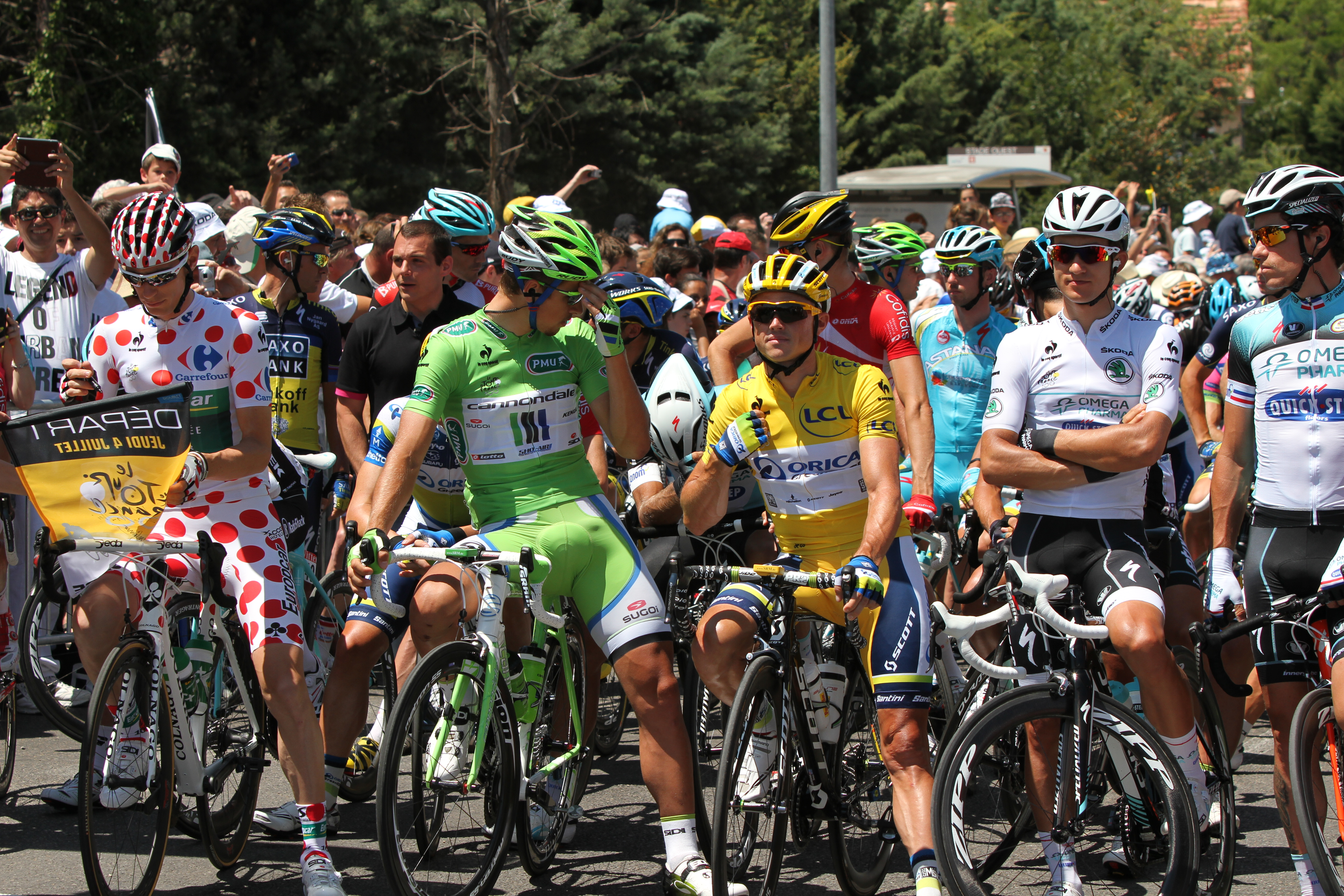 Pierre Rolland, Peter Sagan, Simon Gerrans, Michał Kwiatkowski and Sylvain Chavanel during Stage 6 of the Tour de France 2013 in Aix-en-Provence (Bouches-du-Rhône, France)